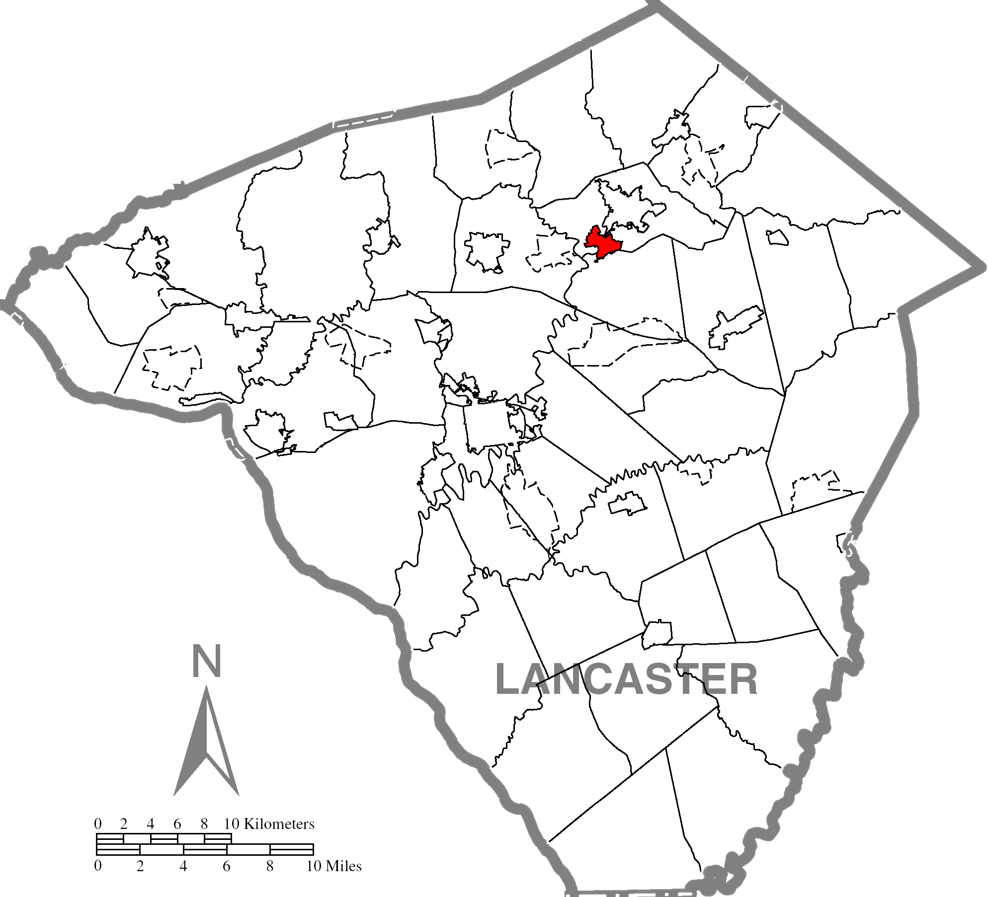 Highlighted Lancaster County map of Akron.